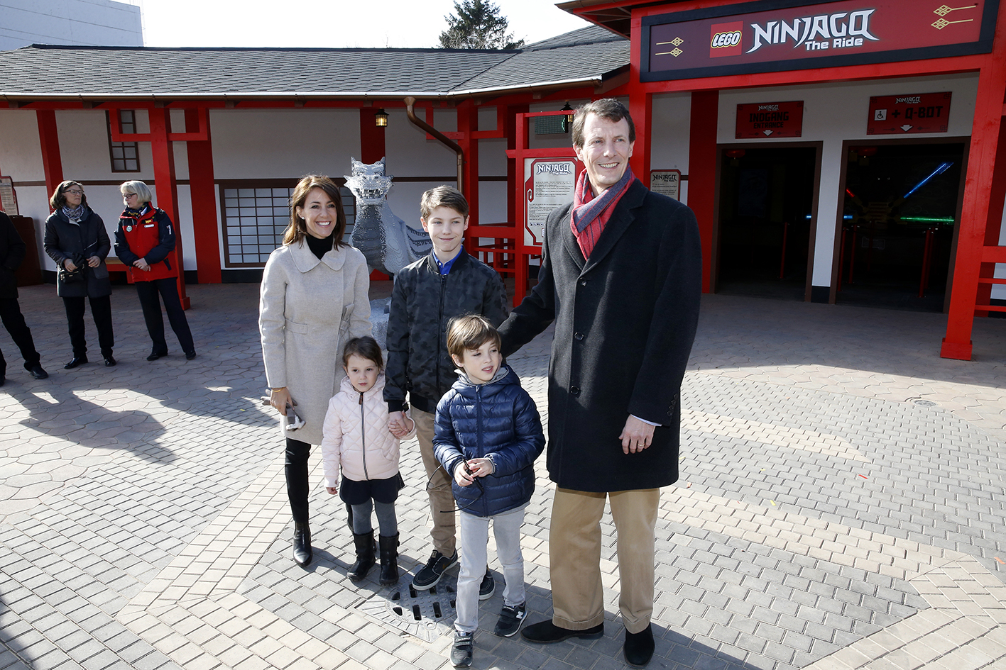 Princess Marie and Prince Joachim with their children Prince Felix, Prince Henrik and Princess Athena at the opening of the area Ninjago World in the amusement park Legoland Billund Resort in Denmark.